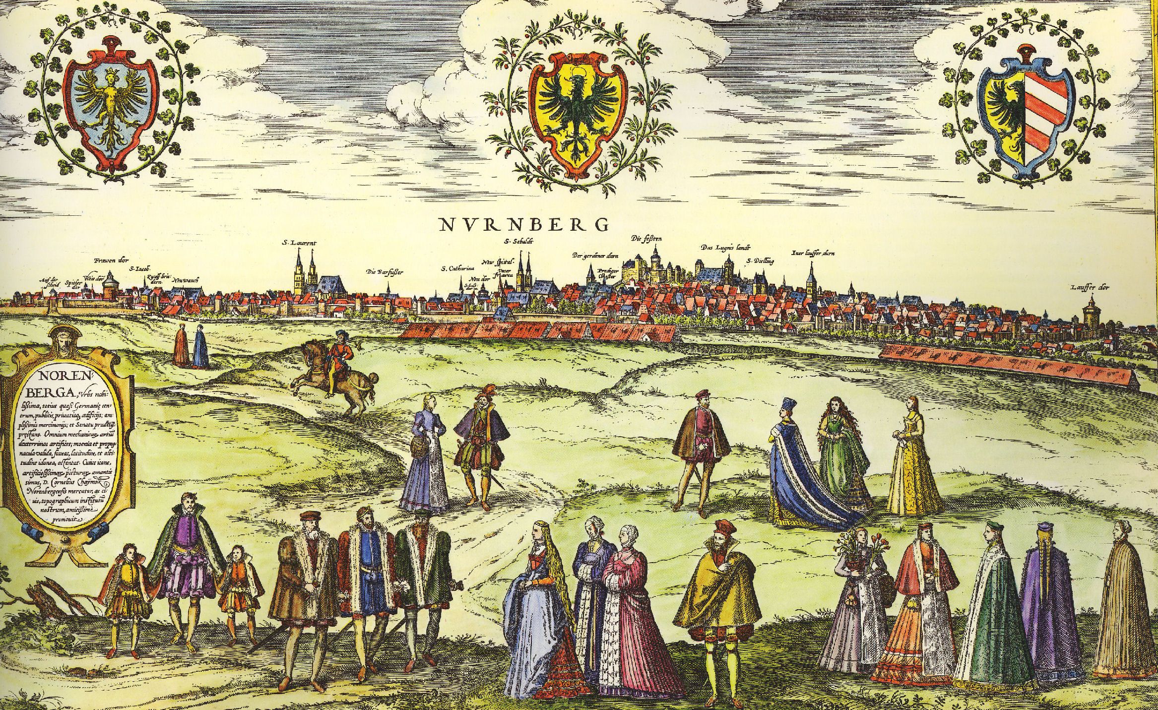 historical sight of the German town of Nürnberg by Georg Braun and Franz Hogenberg (between 1572 and 1618)